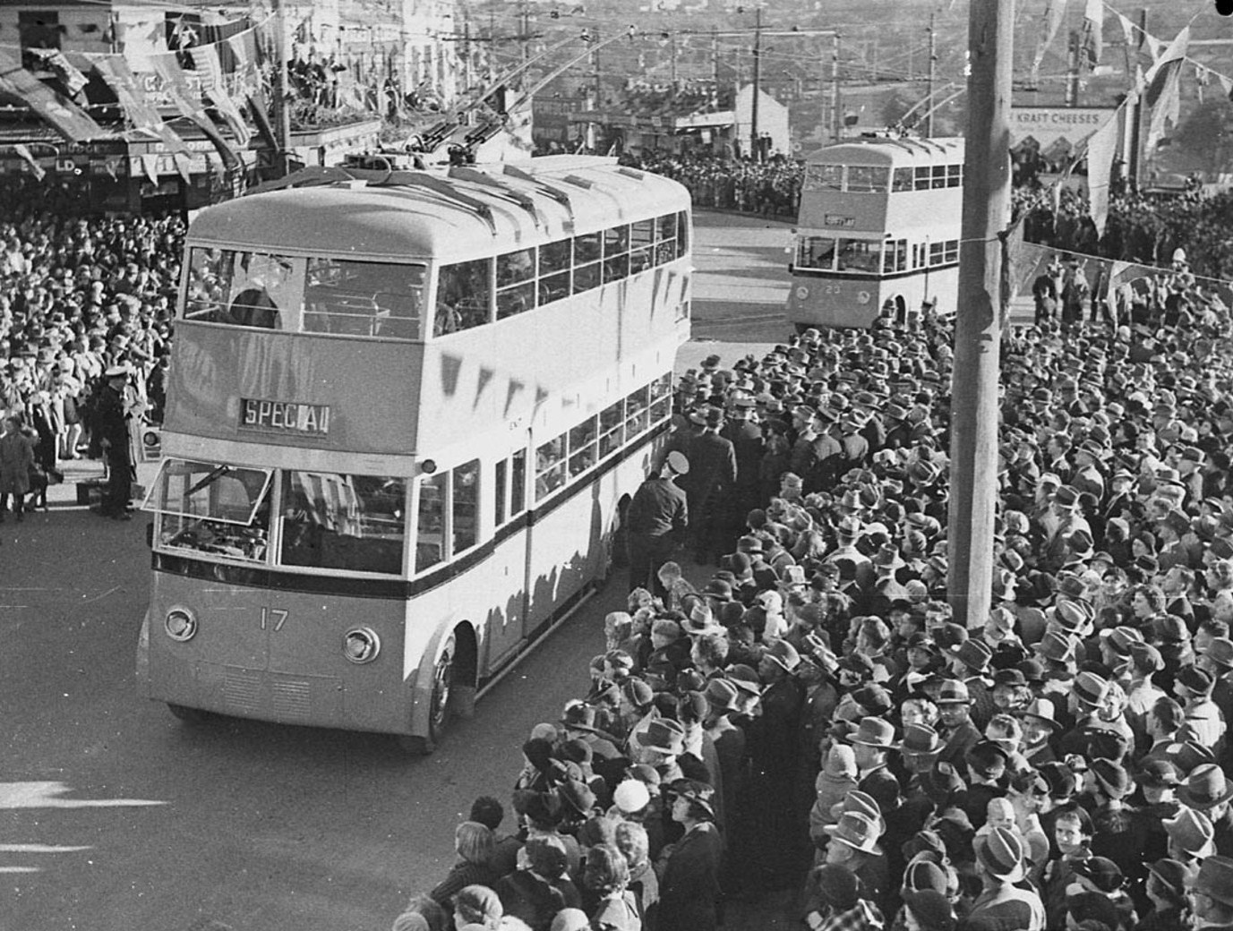 Opening of the new trolleybus service between Kogarah and Sans Souci, New South Wales. Trolleybuses 17 (closest) and 23 were built in 1937 and both had AEC-built 664T chassis and bodies built by the Sydney firm of Ritchie Brothers. They were part of a group of ten such vehicles (nos. 17–26).